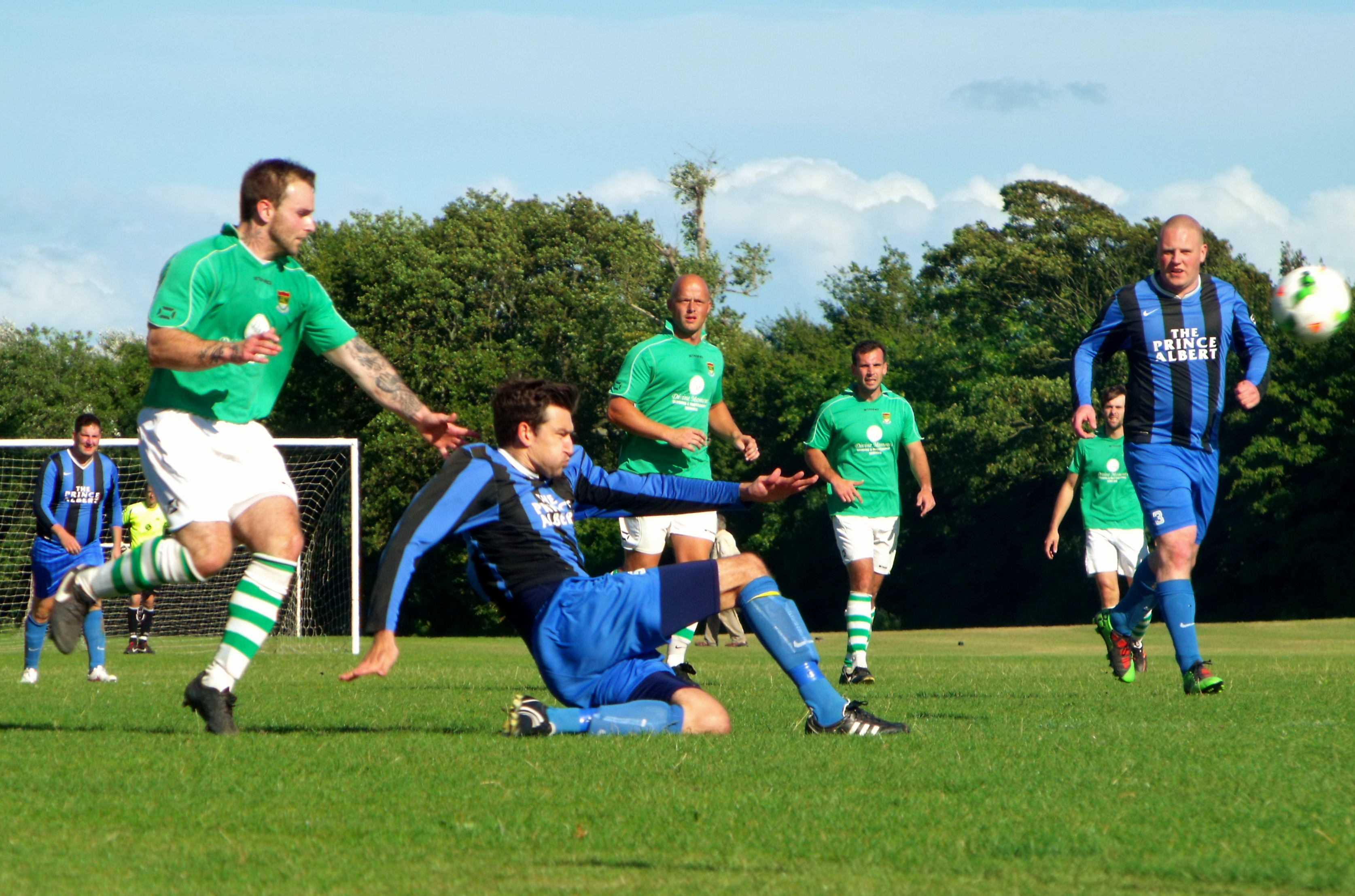 At Eastbourne Sports Park for an East Sussex Premier League match.